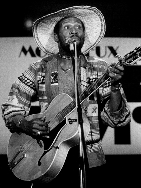 American singer-songwriter and guitarist Taj Mahal in Montreux, Switzerland.